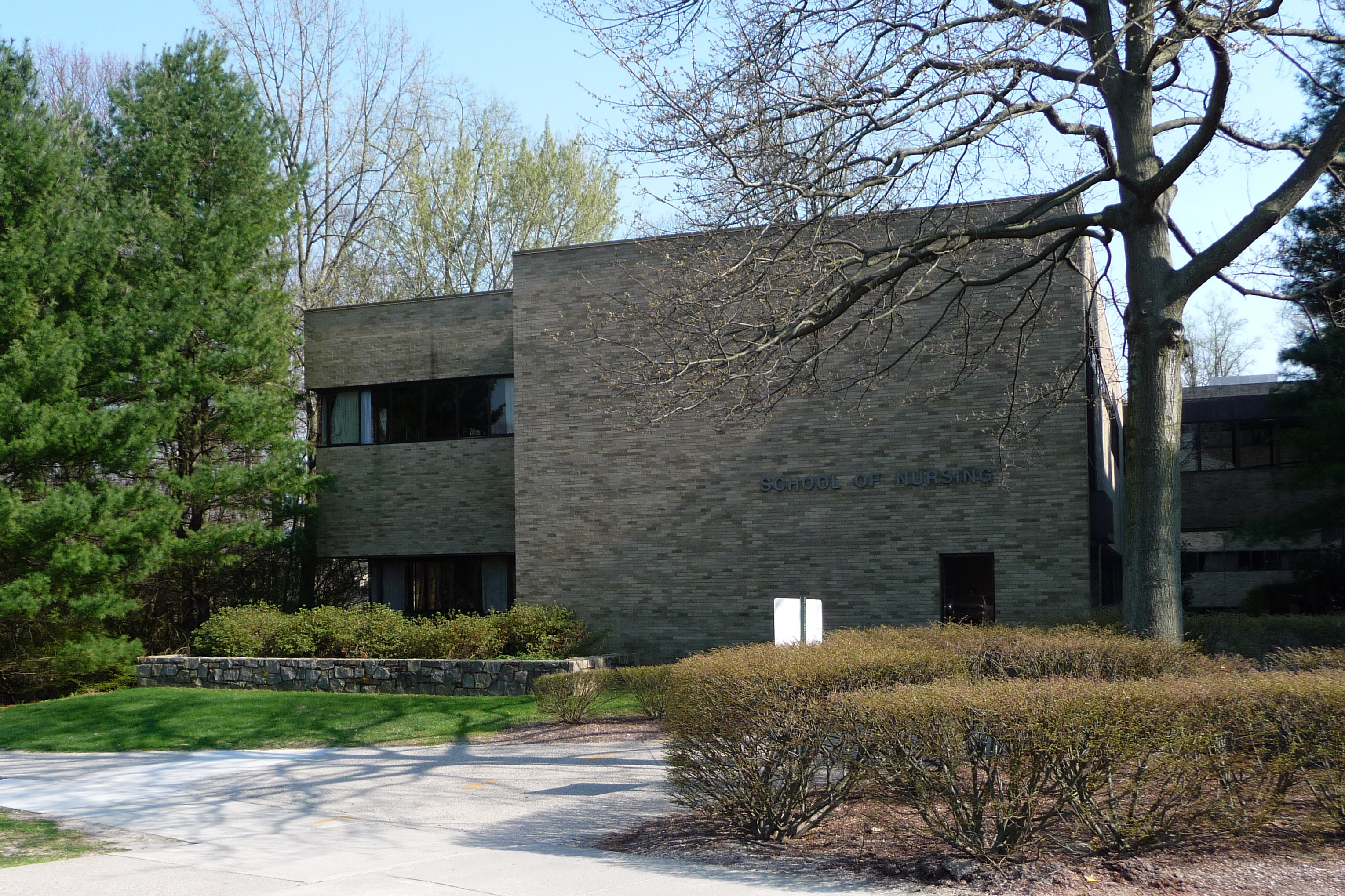 School of Nursing at Fairfield University, Fairfield, Connecticut, USA